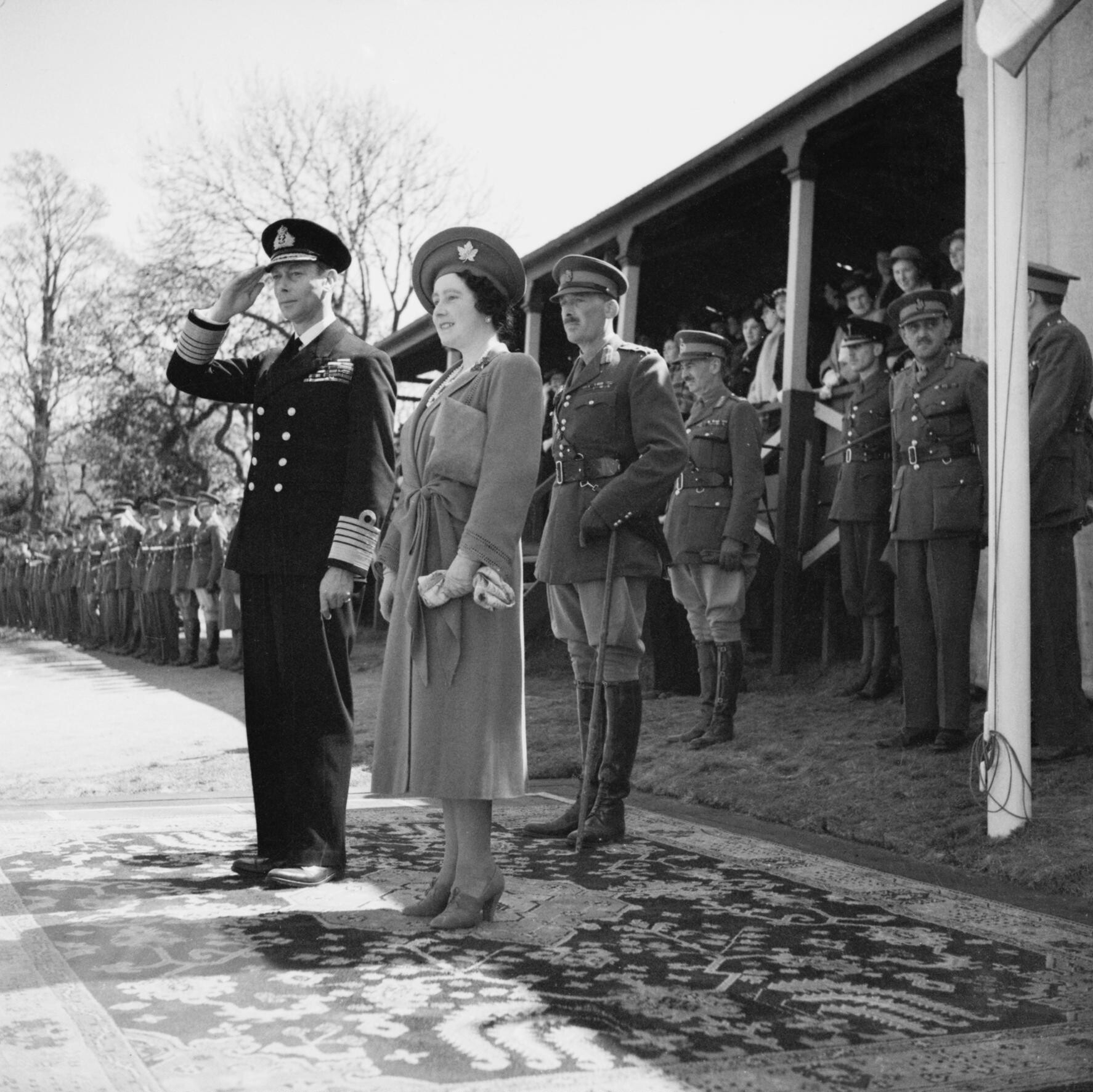 HM King George VI and Queen Elizabeth take the salute at a march past of troops in the UK, 6 May 1942. HM King George VI and Queen Elizabeth on a visit to Southern Command in Britain: At the saluting base, the King salutes as the troops march past.